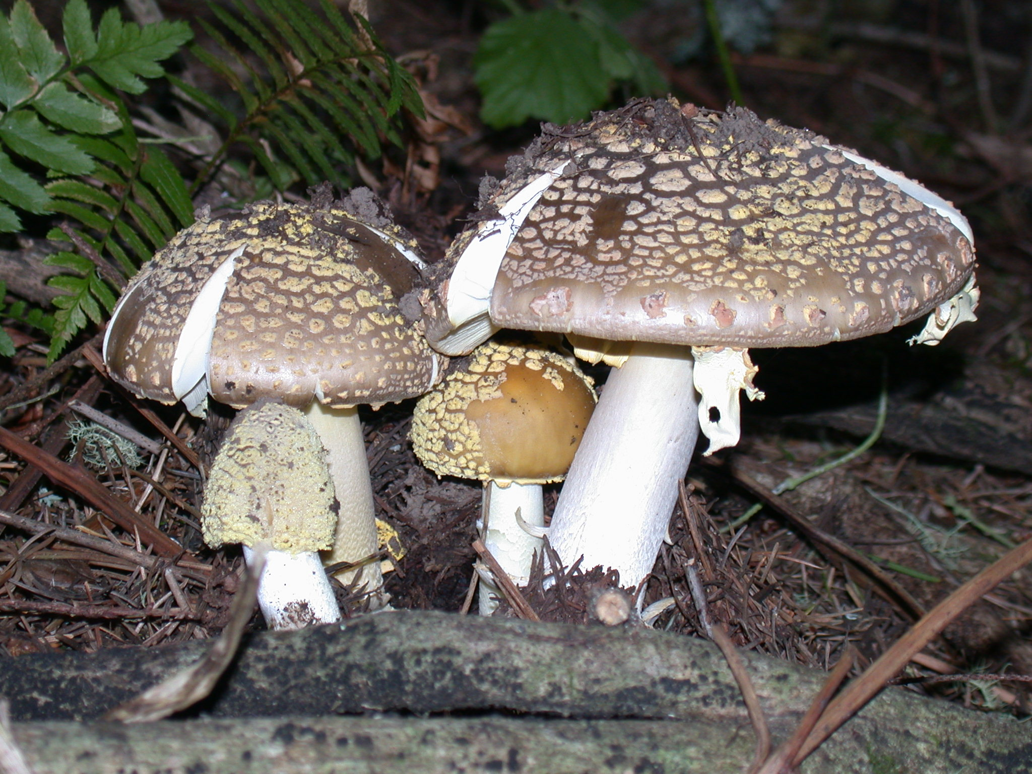 Amanita franchetii sensu H.D. Thiers Location: Point Reyes National Seashore, Marin Co., California, USA Observation Notes: Found along Sky trail from the parking lot on Limantour Road to Sky Camp. For more information about this, see the observation page at Mushroom Observer.